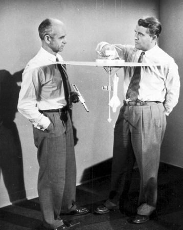 Dr. Von Braun, right, is shown in this photograph taken in the 1950s with Dr. Ernst Stuhlinger. The two are shown discussing concepts for a Walt Disney television special on the exploration of space, Mars and Beyond (1957).